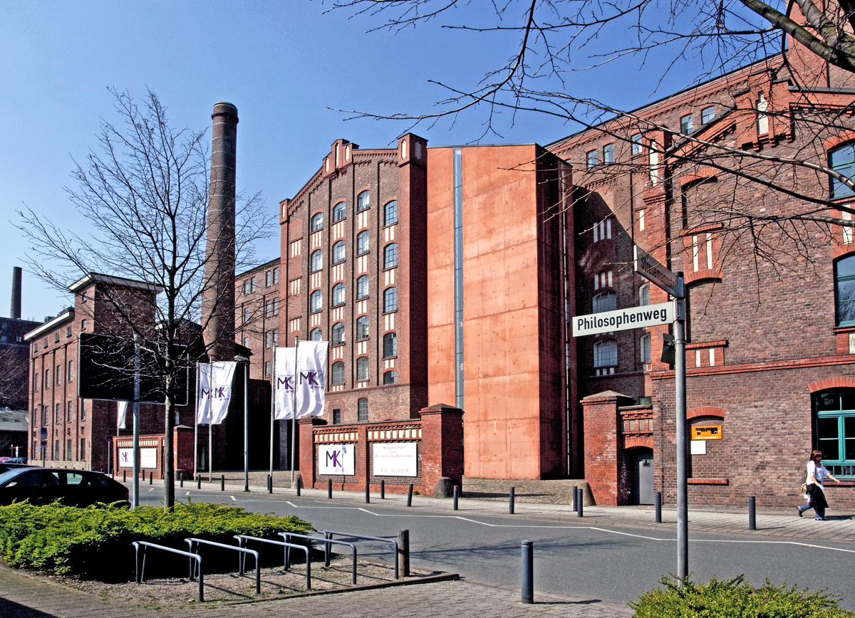 Museum Küppersmühle, Duisburg